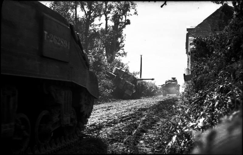 The British Army in the Normandy Campaign 1944 Sherman tanks of the 1st Nottinghamshire Yeomanry (Sherwood Rangers), 8th Armoured Brigade, advance past a knocked-out Tiger tank at Rauray, near Tilly-sur-Seulles, during Operation 'Epsom', 28 June 1944.